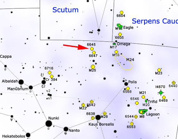 Map of NGC 6645